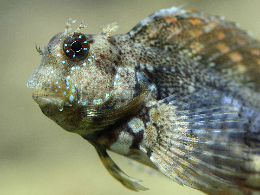 Algae Blenny (Salarias fasciatus) in aquarium (Klimahaus Bremerhaven, Germany).